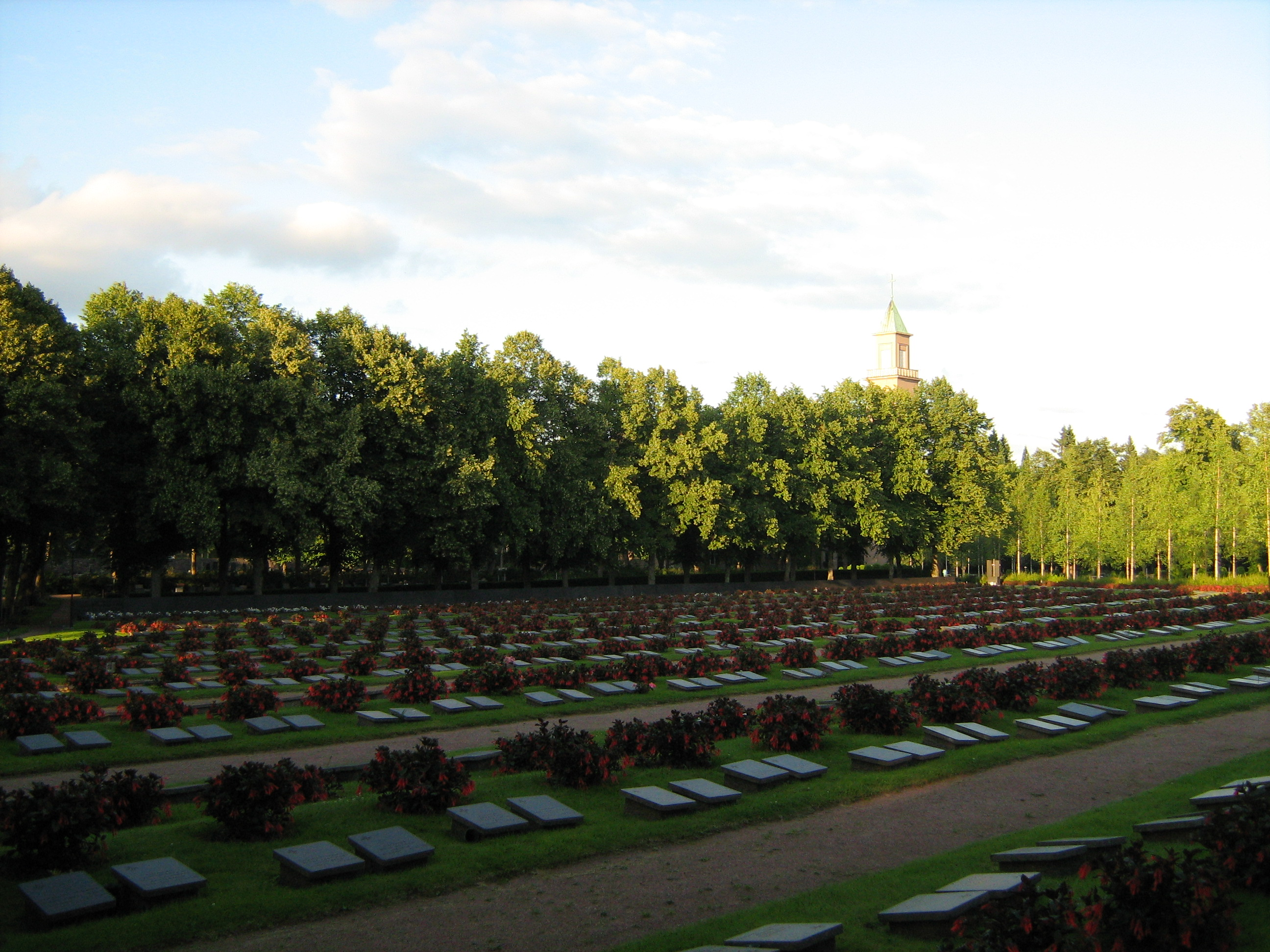 Hietaniemi cemetery in Helsinki, Finland.